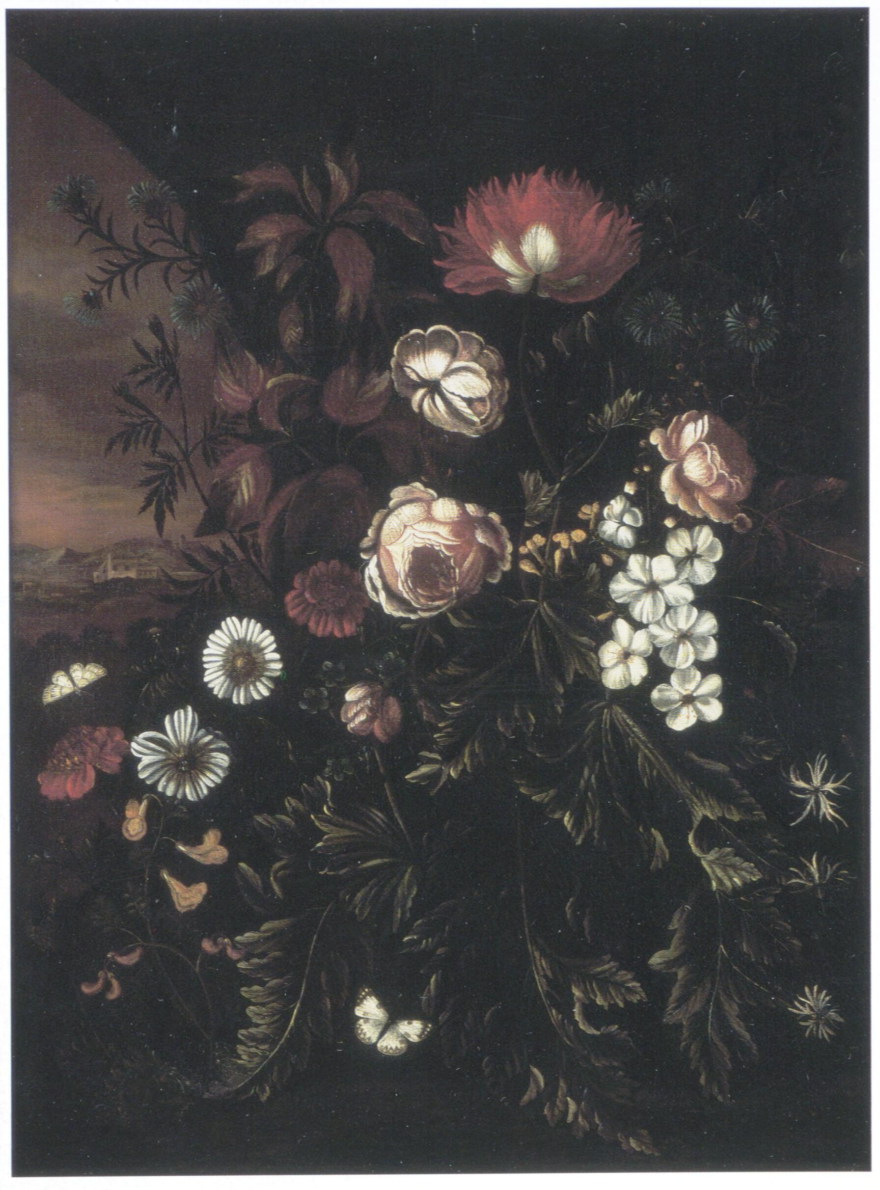 Flower still life with a view of a landscape.label QS:Len,"Flower still life with a view of a landscape." label QS:Lnl,"bloemen in landschap"